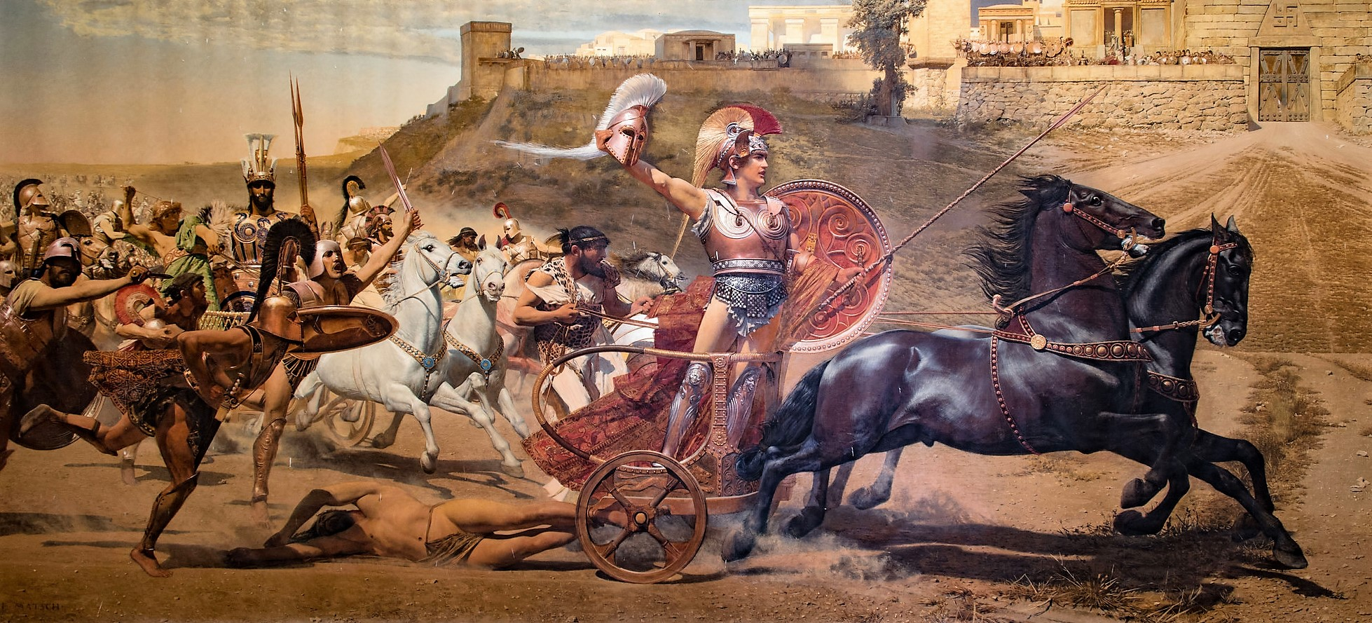 Achilles dragging the dead body of Hector in front of the gates of Troy.The original painting is a fresco on the upper level of the main hall of the Achilleion at Corfu, Greece.